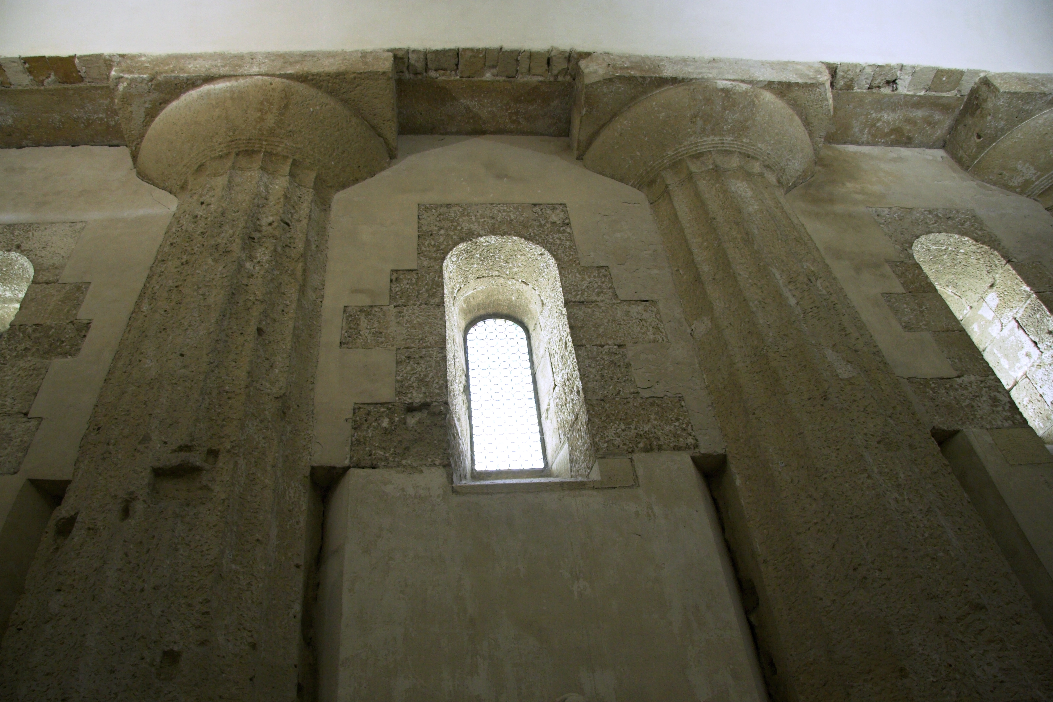 Doric columns inside the cathedral of Syracuse (Natività di Maria Santissima). Originally Athena's temple, 480 BC. The walls around the 7th century AD.